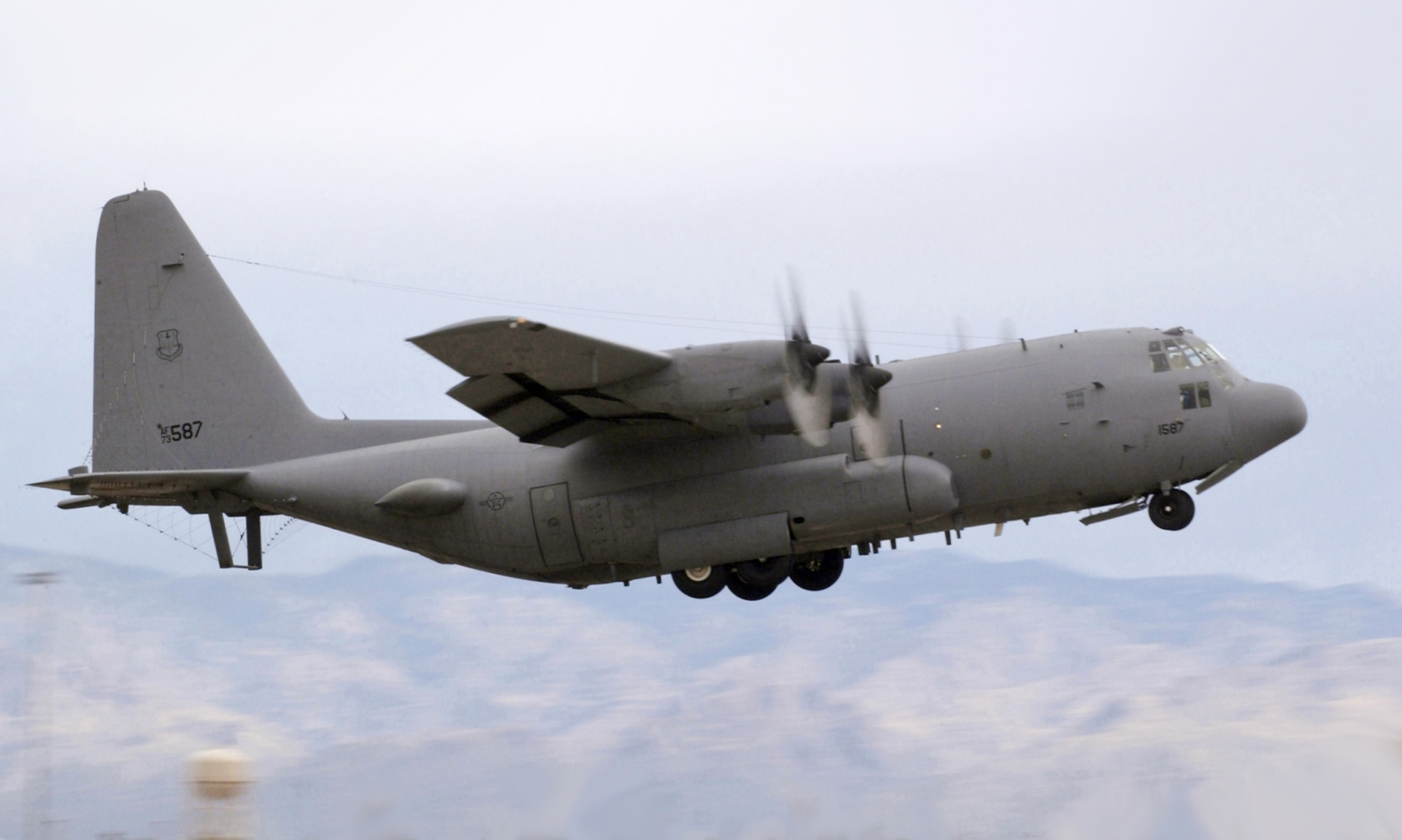 EC-130H 41st EWS taking off Davis-Monthan AFB